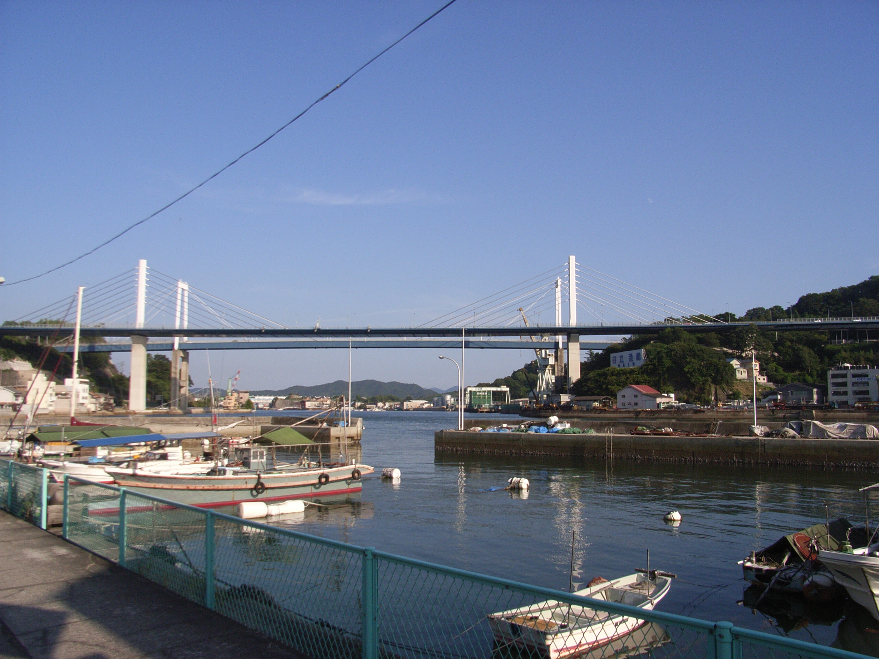 The Onomichi Bridges